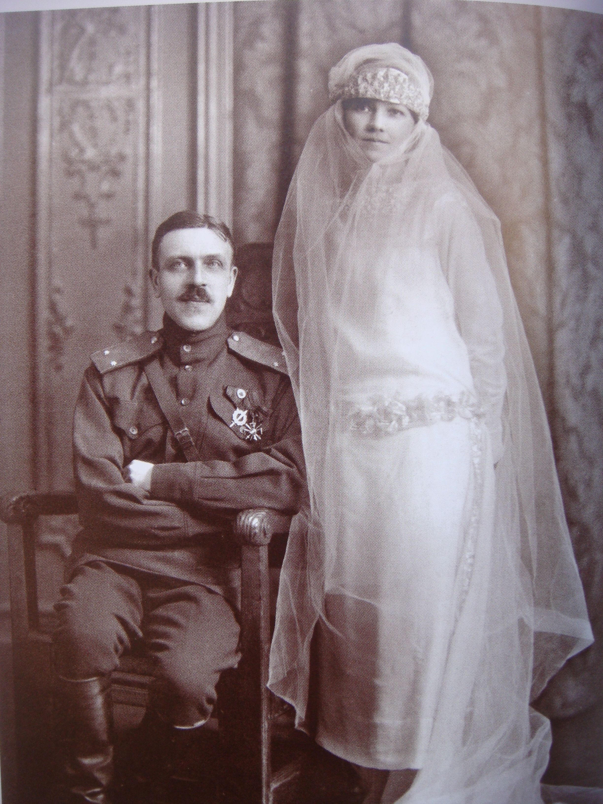 White Russian officer Shapron du Larre with his Bride Natalya Lavrovna Kornilova